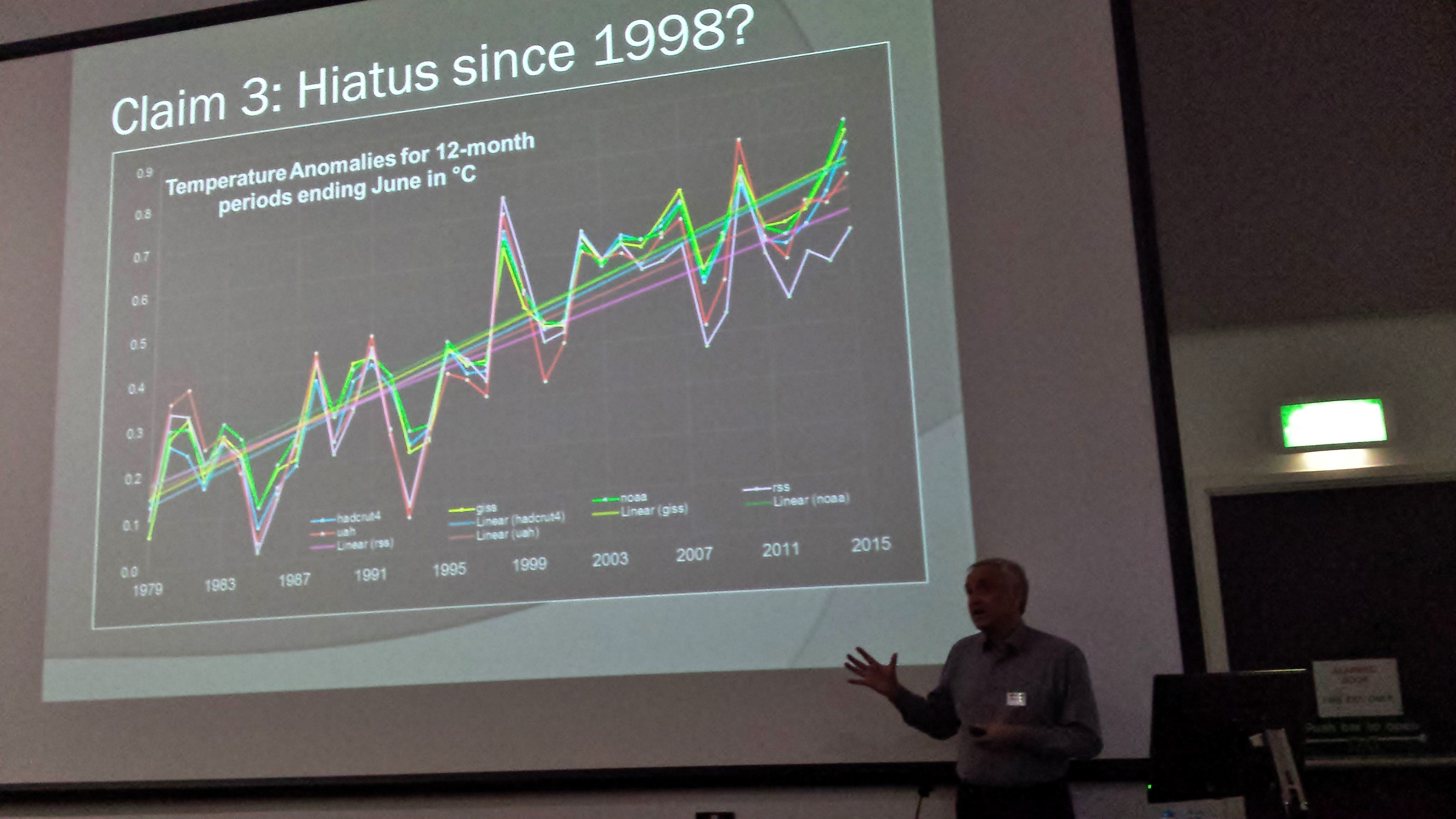 Amardeo Sarma lecturing about climate change denialism and the future world energy and environmental problems during the European Skeptics Congress 2015.